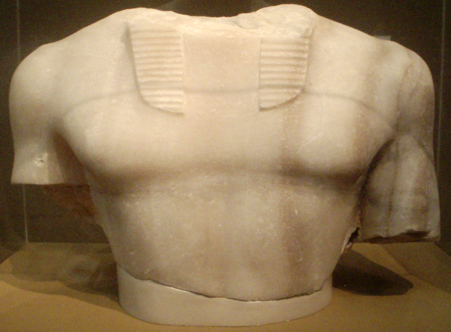 Fragmentary statue torso of Menkaura. From the Giza Valley Temple of Menkaura, made during his reign (circa 2548-2530 B.C.) Alabaster. Now residing at the Museum of Fine Arts, Boston. Museum Expedition 11.3146.